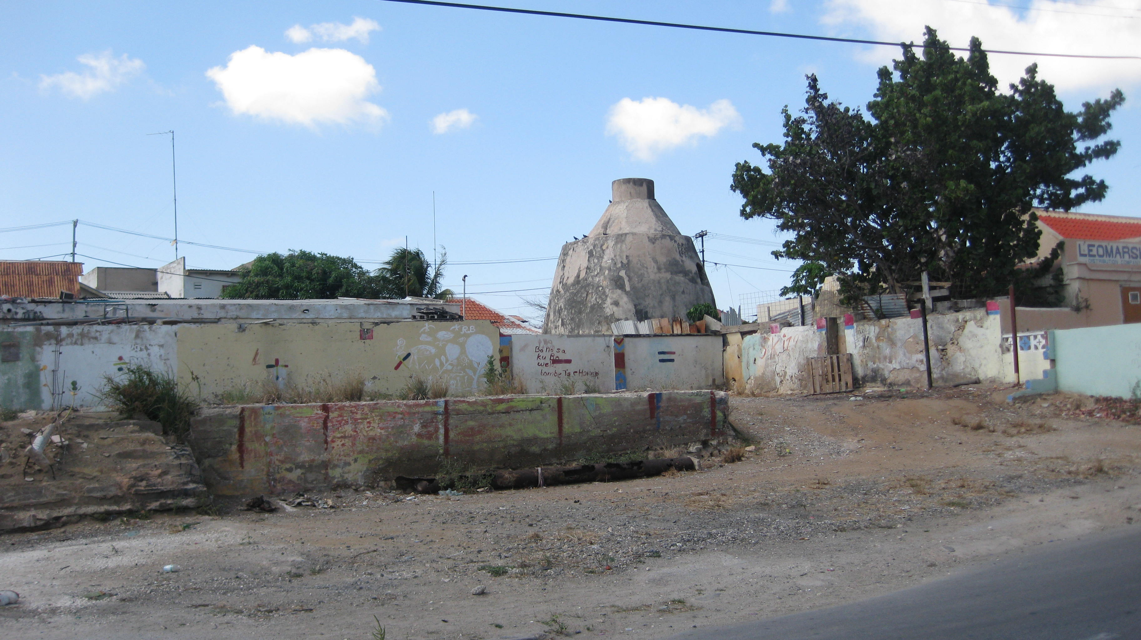 Lime kiln in Oranjestad, Aruba